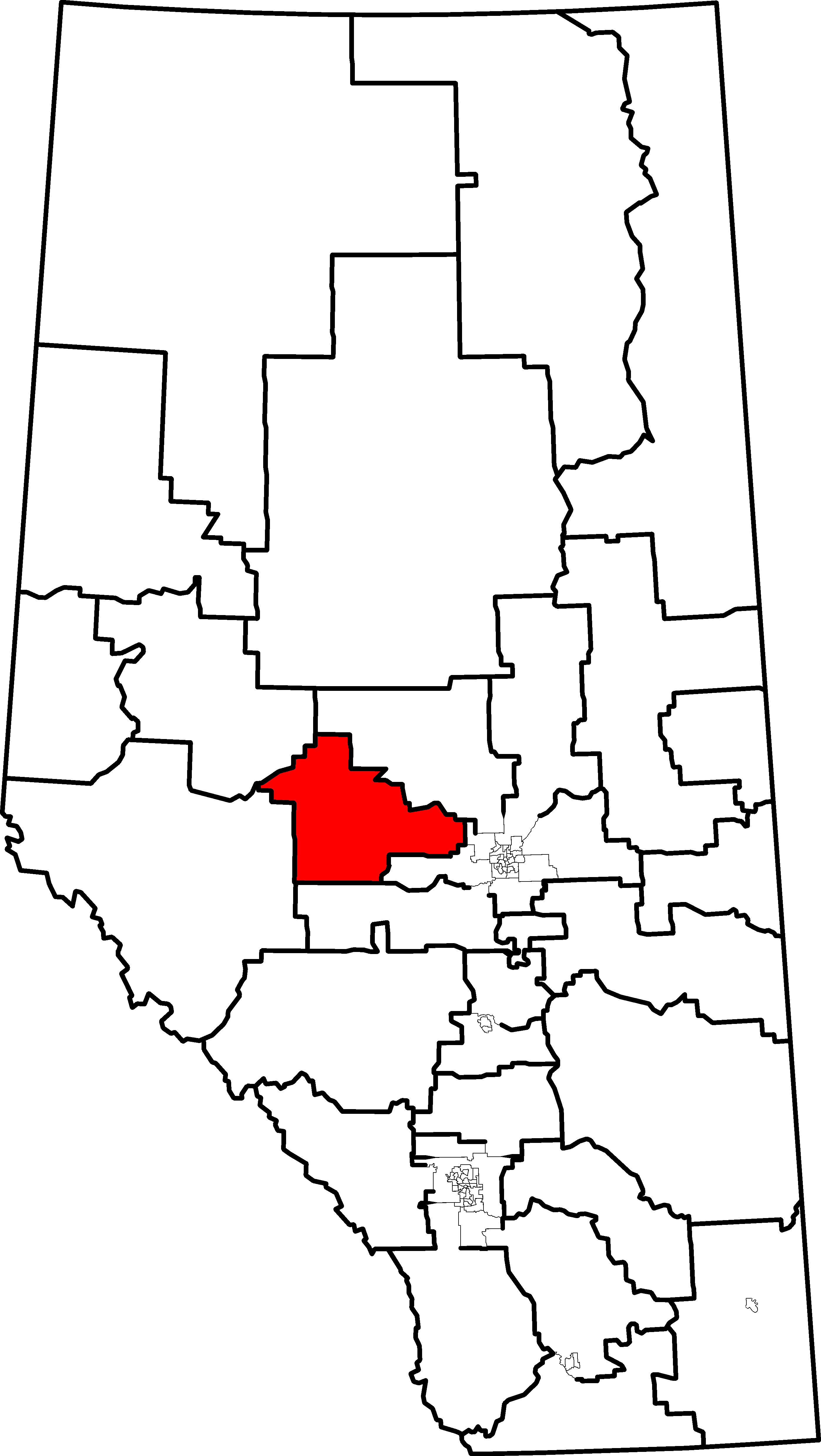 A map of the Alberta provincial electoral districts, effective 2010. Whitecourt-Ste. Anne is highlighted in red.